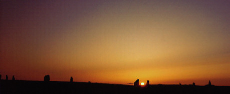 Midsummer Sunset at the Ring of Brodgar shot taken by Islandhopper in 2003 from the author's Islandhopper archive published elsewhere before